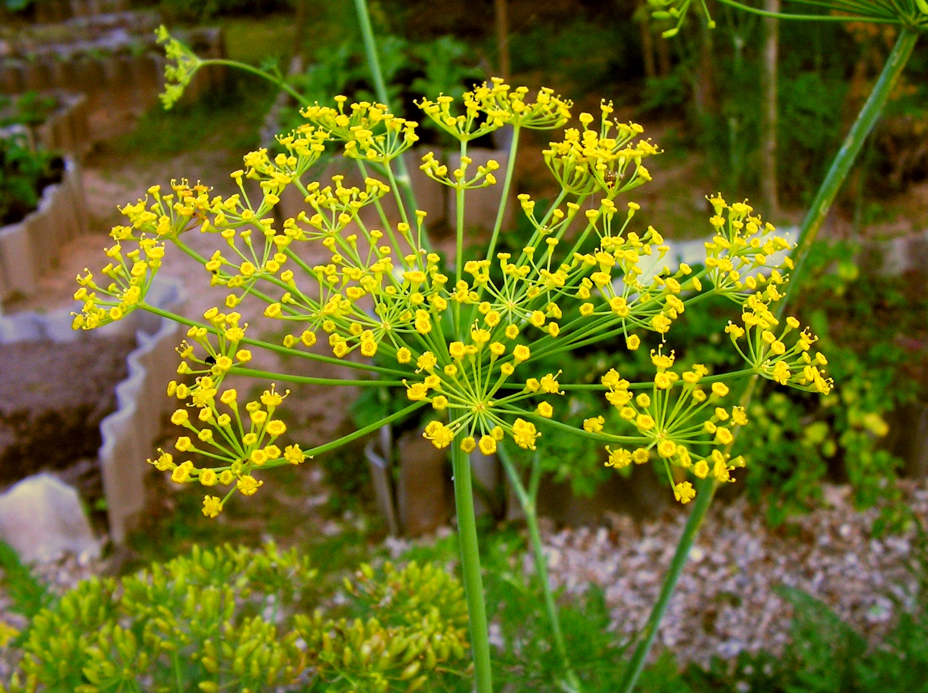 Inflorescence of Dill. Moscow region, Russia.